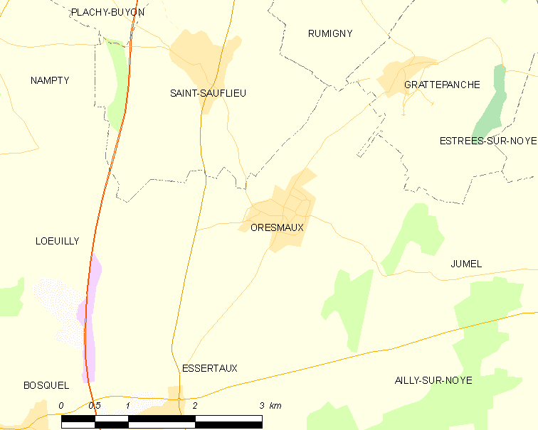 Map of French municipality Oresmaux